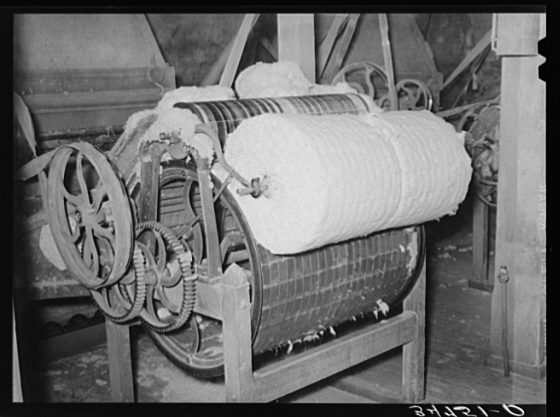 Linters, that cotton which clings to the seed, is removed and then formed into bats. Linters is of particular value in chemical industries because of its cellulosic content. Cotton seed oil mill. McLennan County, Texas